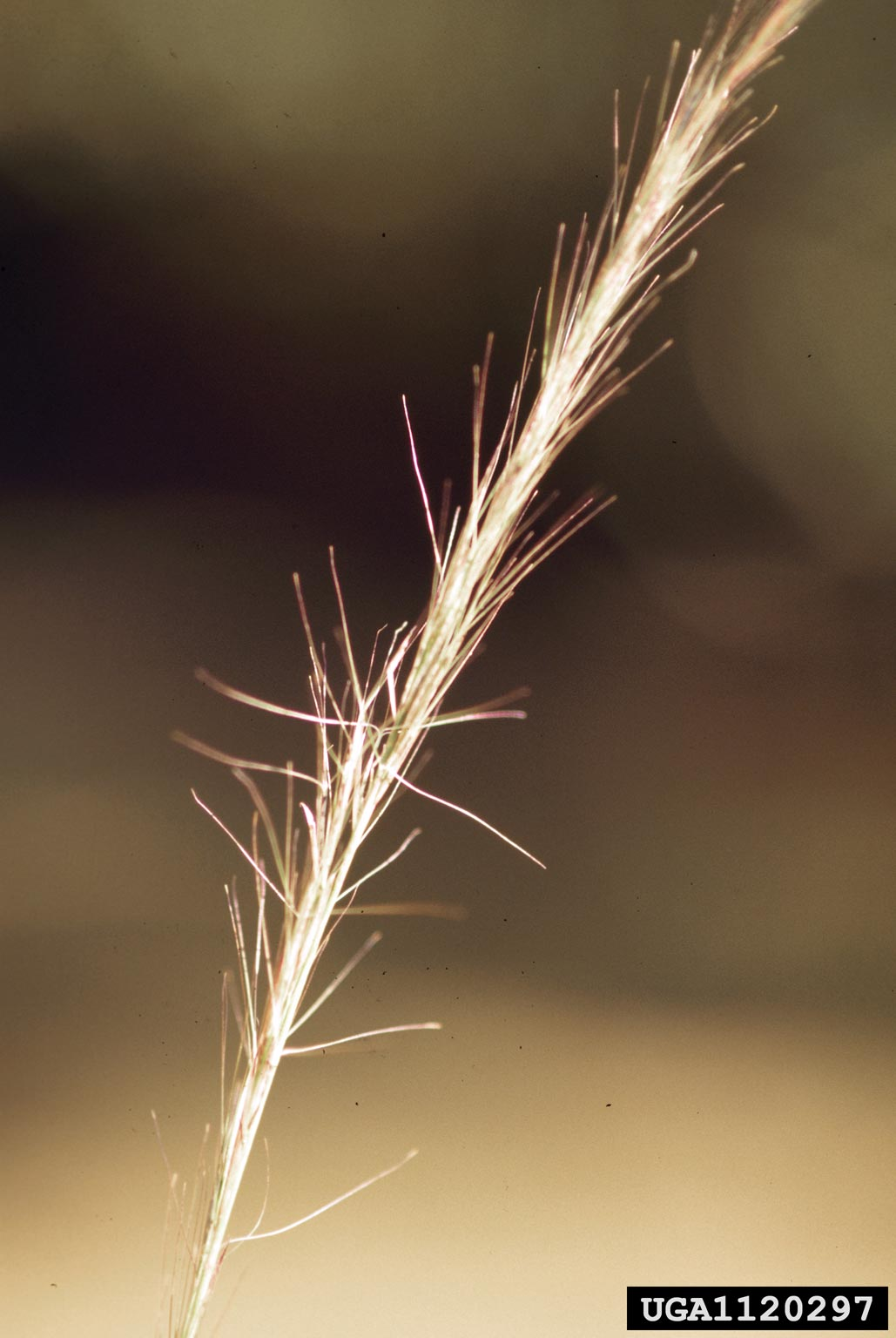 Aristida purpurascens. October. Photo from Forest Plants of the Southeast and Their Wildlife Uses by J.H. Miller and K.V. Miller, published by The University of Georgia Press in cooperation with the Southern Weed Science Society.